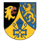 Coat of arms of Osterspai